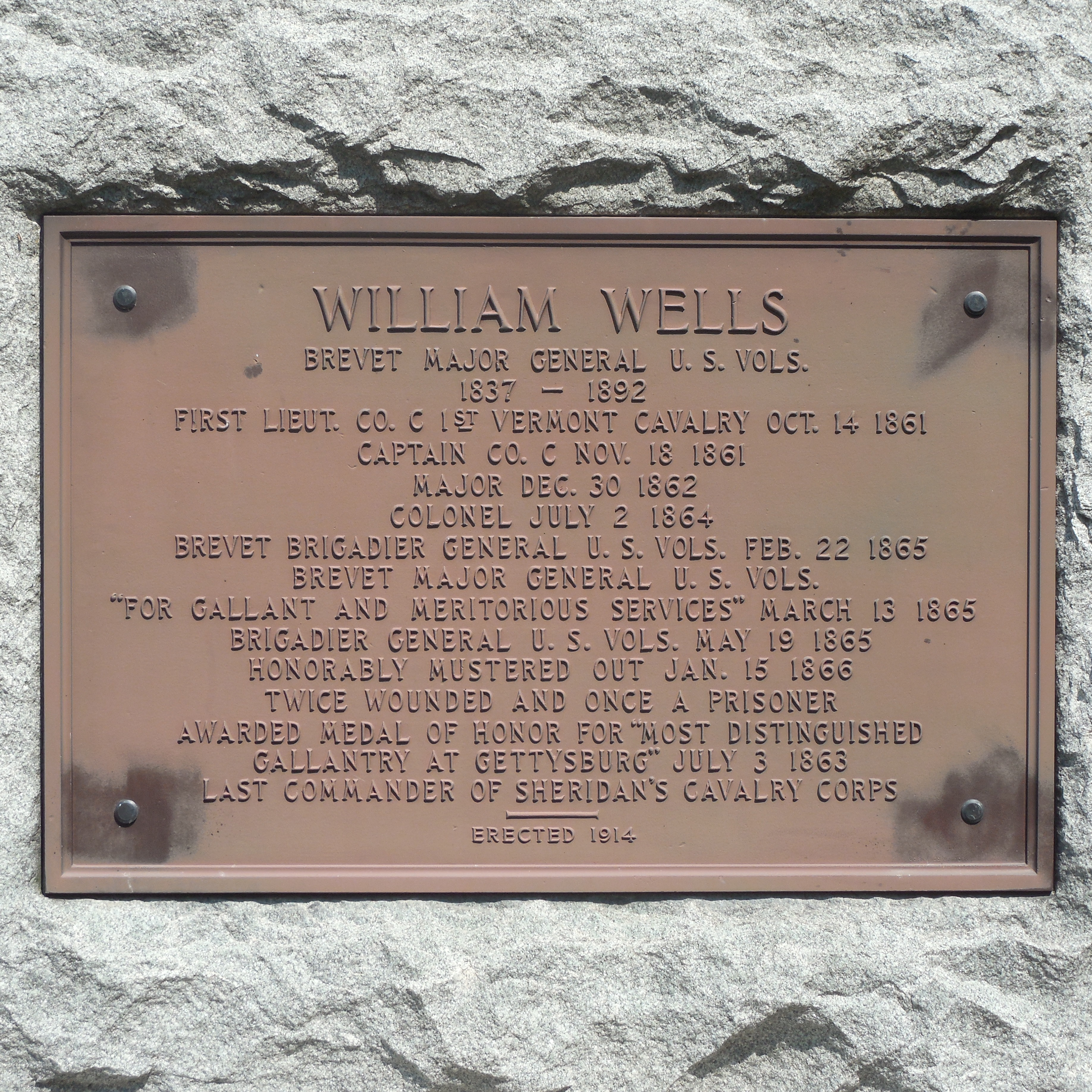 Memorial plaque of Major General William Wells at Battery Park in Burlington, VT, U.S. (J. Otto Schweizer, sculptor, 1914): 14 Jul 2015